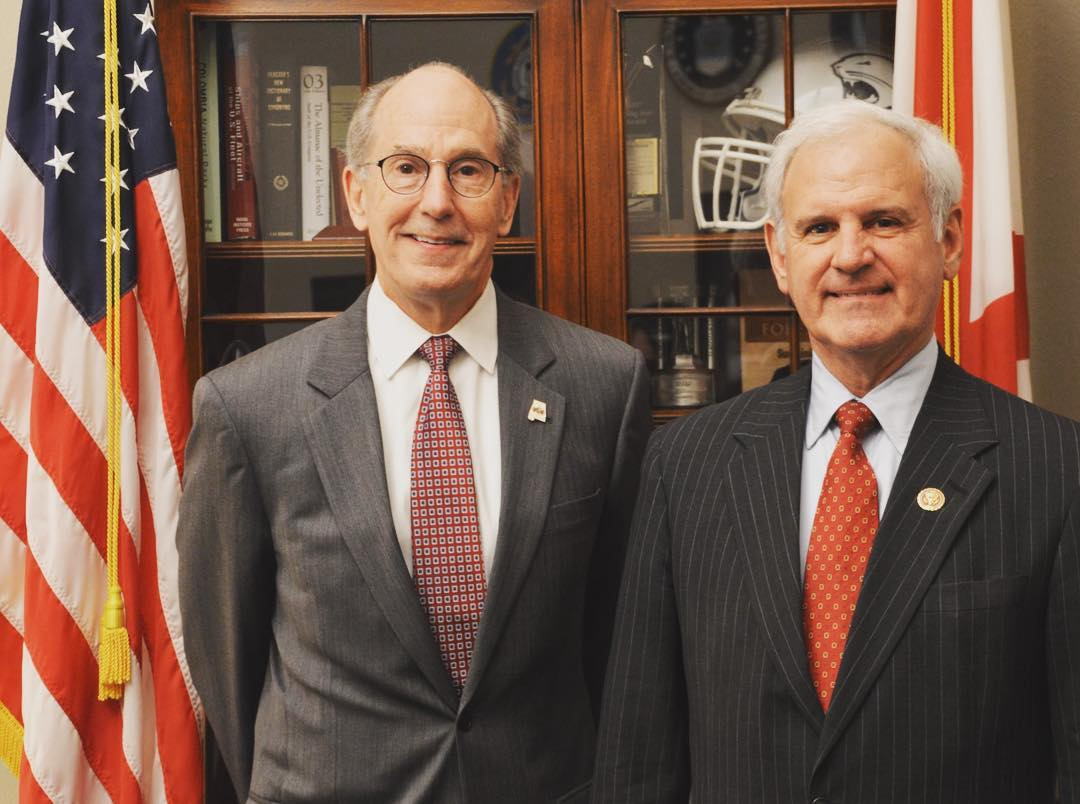 Bradley Byrne with Young Boozer in Washington, D.C. in 2019.